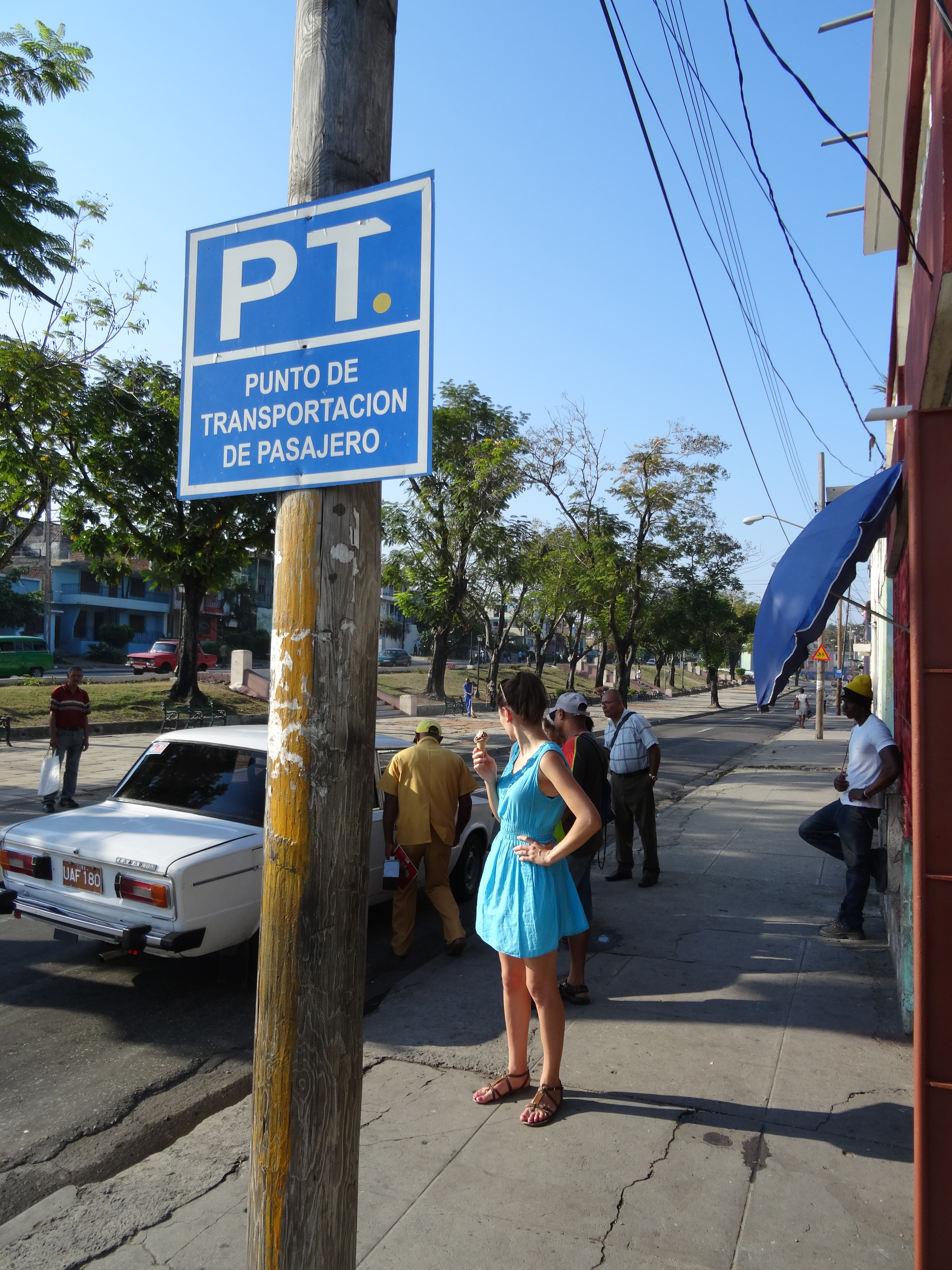 Official hitchhiking and carpooling point in Santiago de Cuba. Due to ineffectiveness of public transportation, state owned cars, busses, trucks and other vehicles are hitchhiked by officials in yellow uniforms to lift the passengers for small payment.